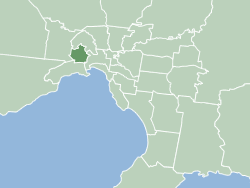 Map of Melbourne's Local Government Areas, highlighting City of Maribyrnong